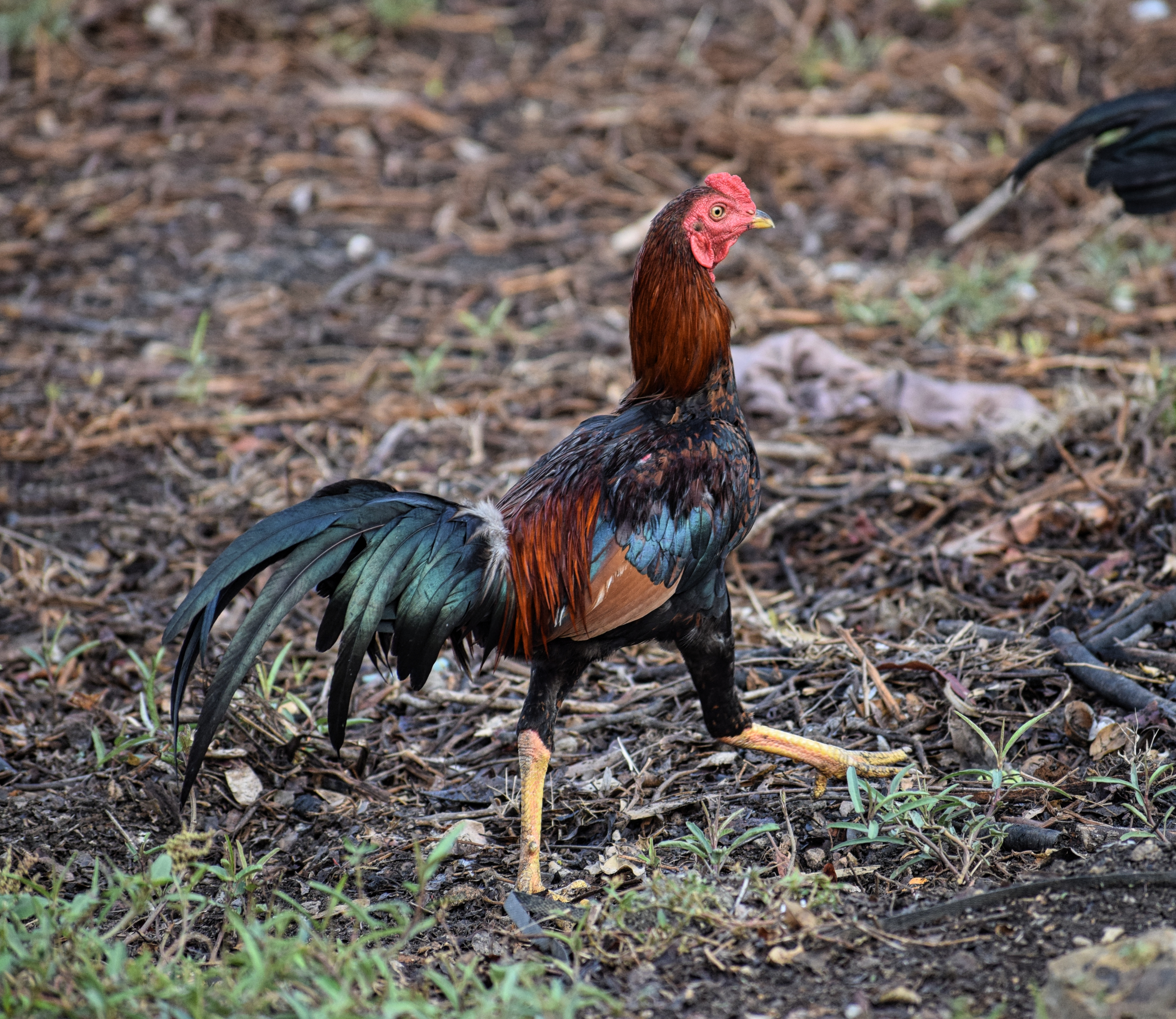 A red and black Thai Game chicken in Tak city, Tak Province, Thailand.